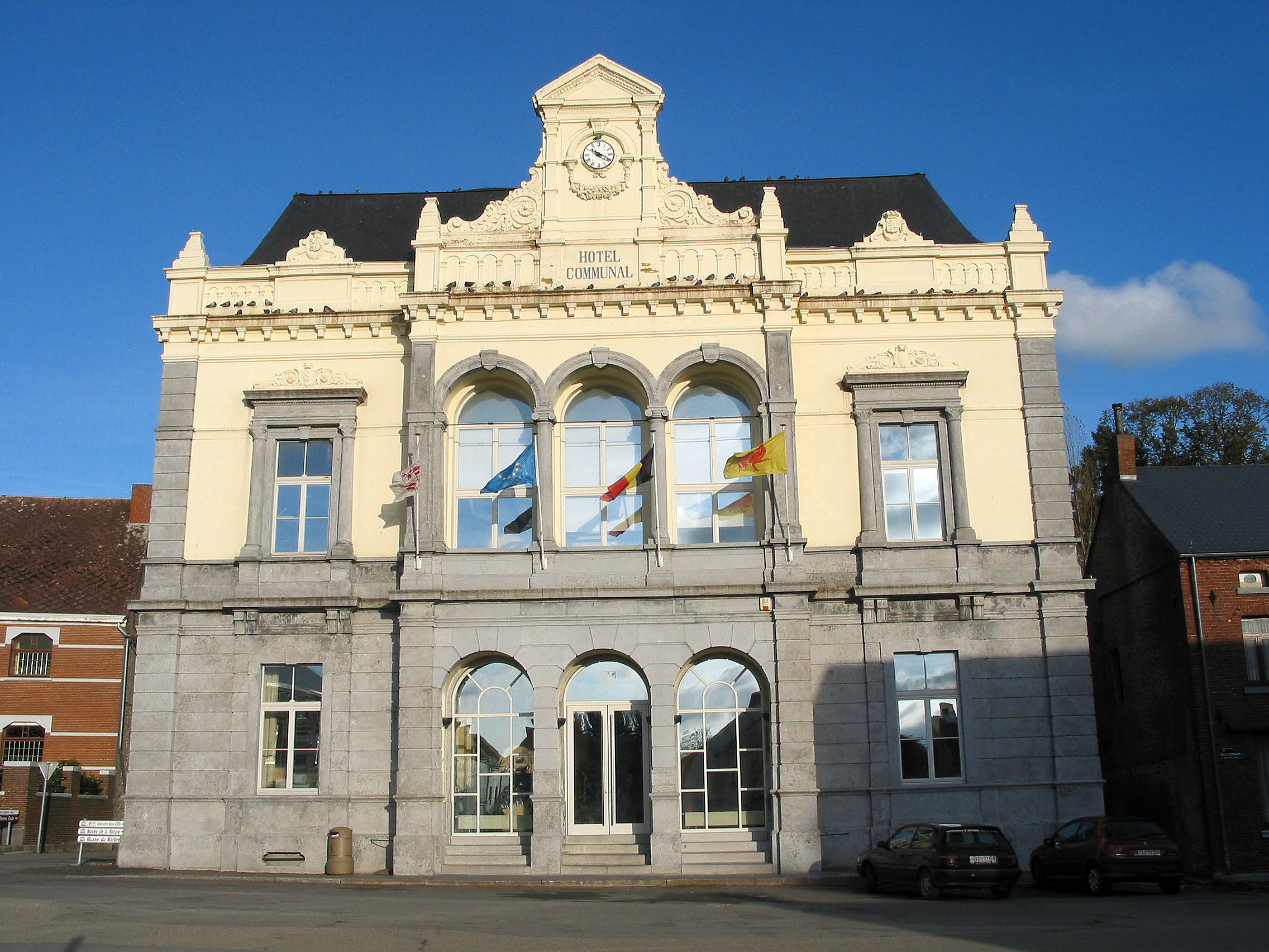 Sivry-Rance (Belgium), Grand’Place, 2 - the town hall.